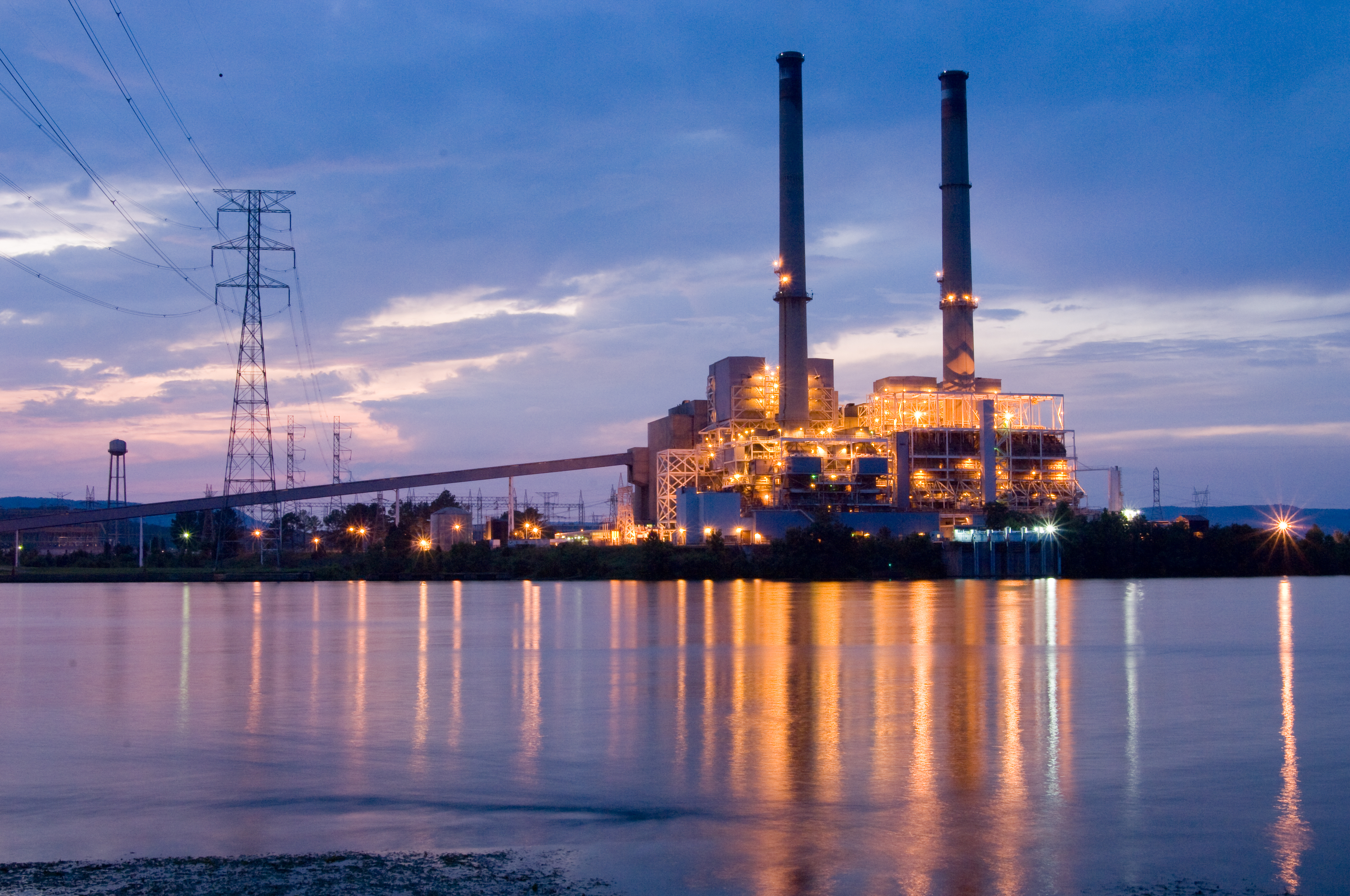 Widows Creek Power Plant.